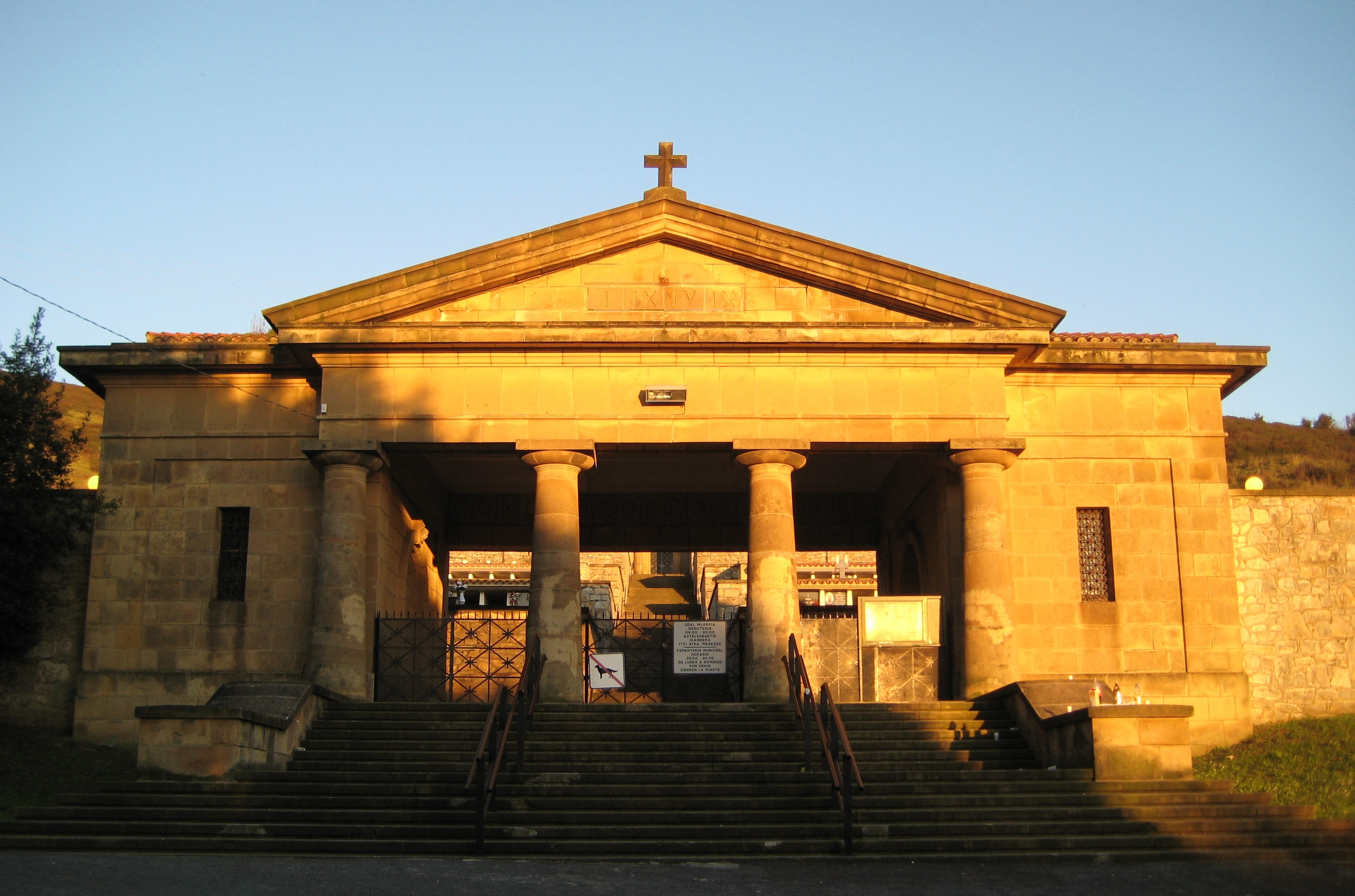 Graveyard of Berango